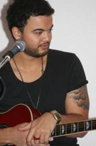 Guy Sebastian performing at a private charity function at Medina Executive, Sydney Central Australia on April 10, 2009